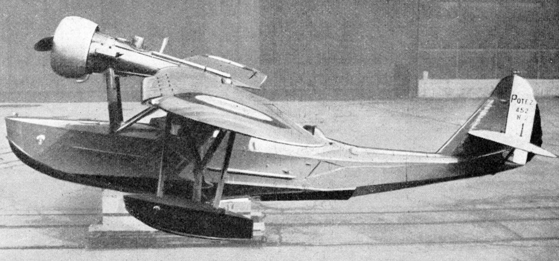 Potez 452 photo from Le Pontential Aérien Mondial 1936